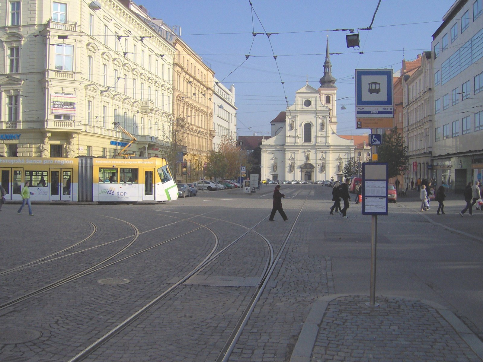 Tram track in Joštova street, Česká stop, Škoda 13T tram, Brno, Czech Republic